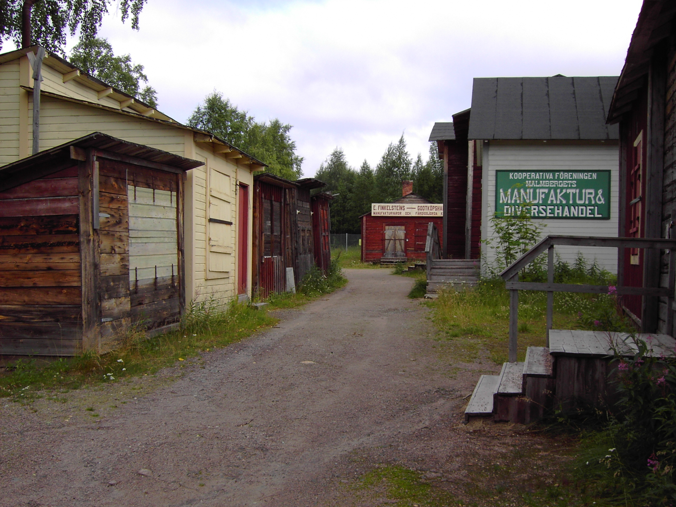 Kåkstaden, Malmberget